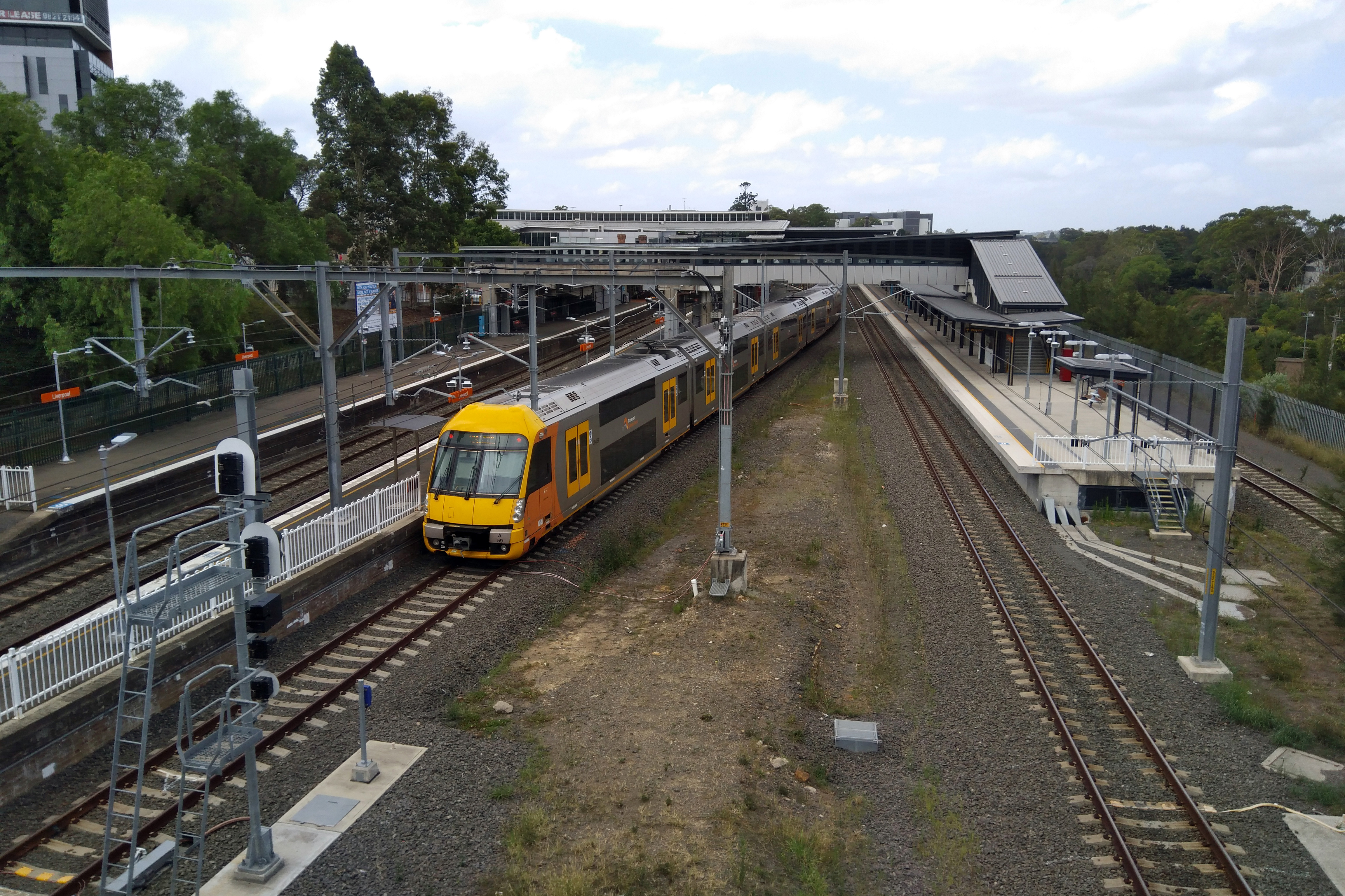 View of the station from Newbridge Road.